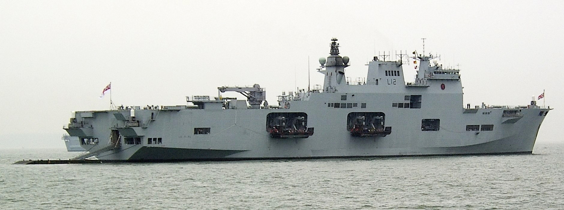 HMS Ocean at the 2005 International Fleet Review, showing Landing Craft on davits and Stern Ramp deployed.